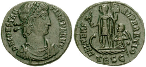 CONSTANTIUS II. 337-361 AD. Æ 1/2 Centenionalis (18mm, 2.91 g, 5h). Thessalonica mint, 5th officina. Struck 350 AD. D N CONSTAN TIVS P F AVG, pearl-diademed, draped, and cuirassed bust right FEL TEMP REPARATIO, Emperor standing left on galley, holding phoenix and labarum; Victory steering at stern; TESE. RIC VIII 119; LRBC 1641. EF, dark green patina.